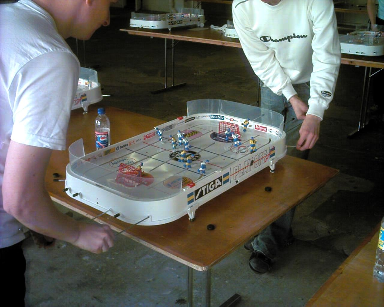 Table hockey training at Öresund Cup in Helsingør